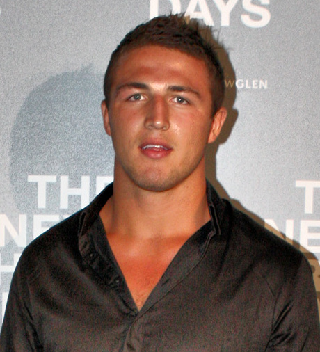 RUSSELL CROWE walks the red carpet at the Australian premiere of THE NEXT THREE DAYS